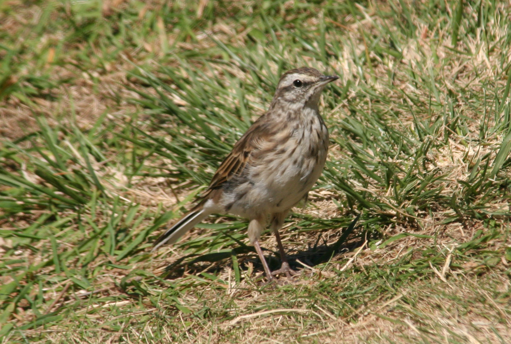 New Zealand Pipit Anthus novaeseelandiae novaeseelandiae. Kapiti Island early 2010.